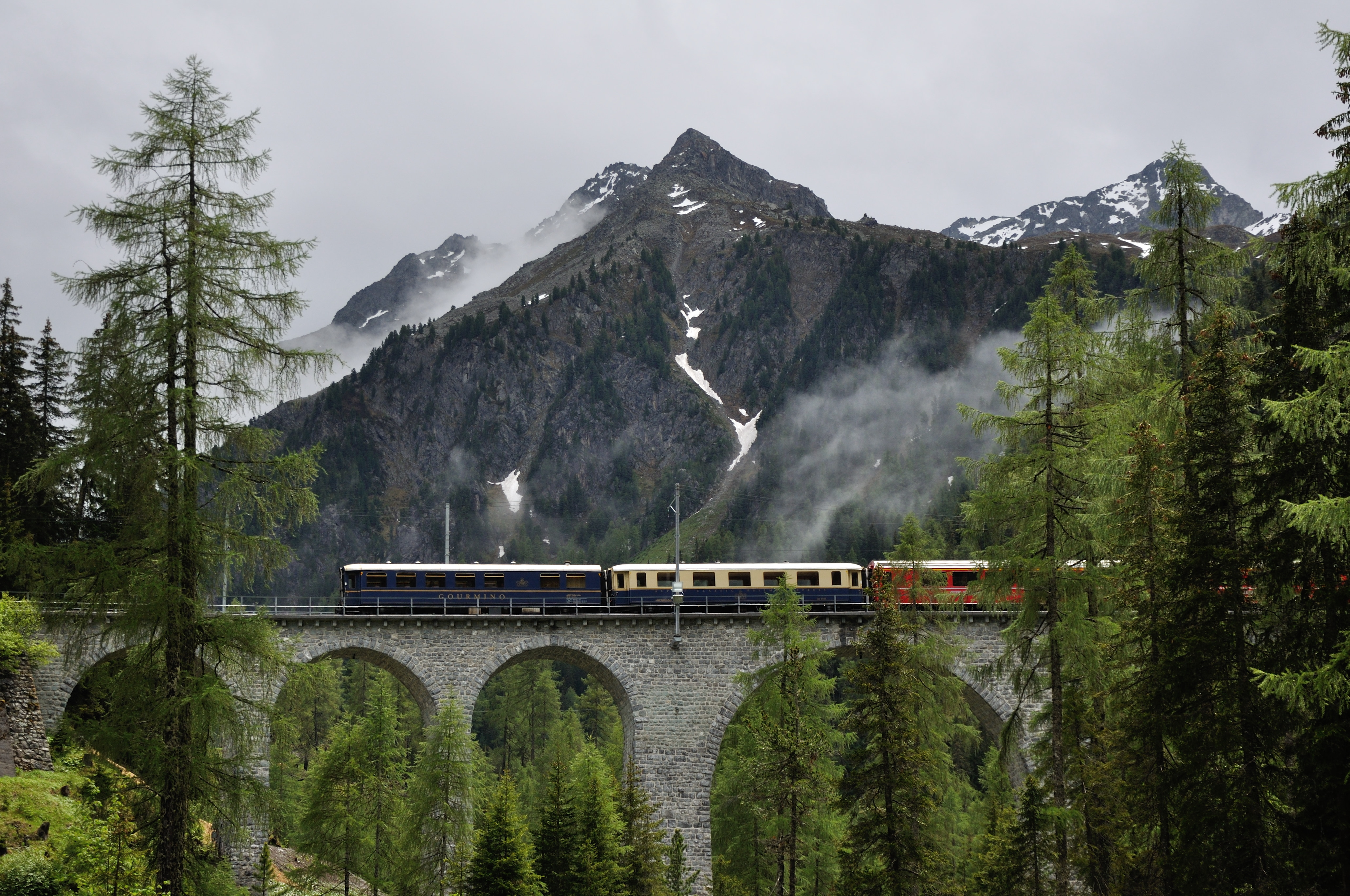 Switzerland, Graubünden, hiking along the railway trail between Preda and Bergün